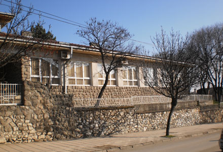 Новиот изглед на Гимназијата